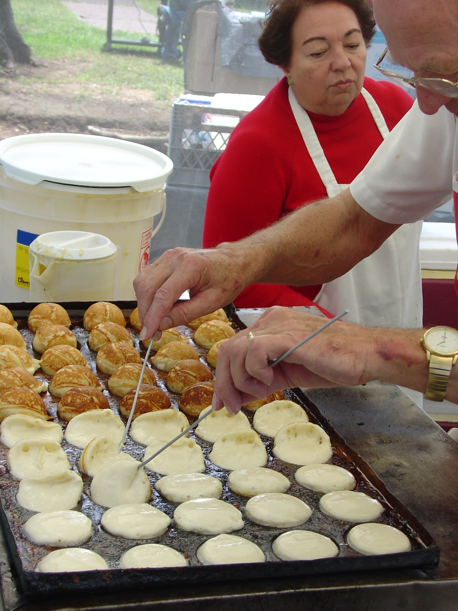 Aebleskiver are part of the annual Scandinavian Festival at California Lutheran University in Woodland Hills, California.